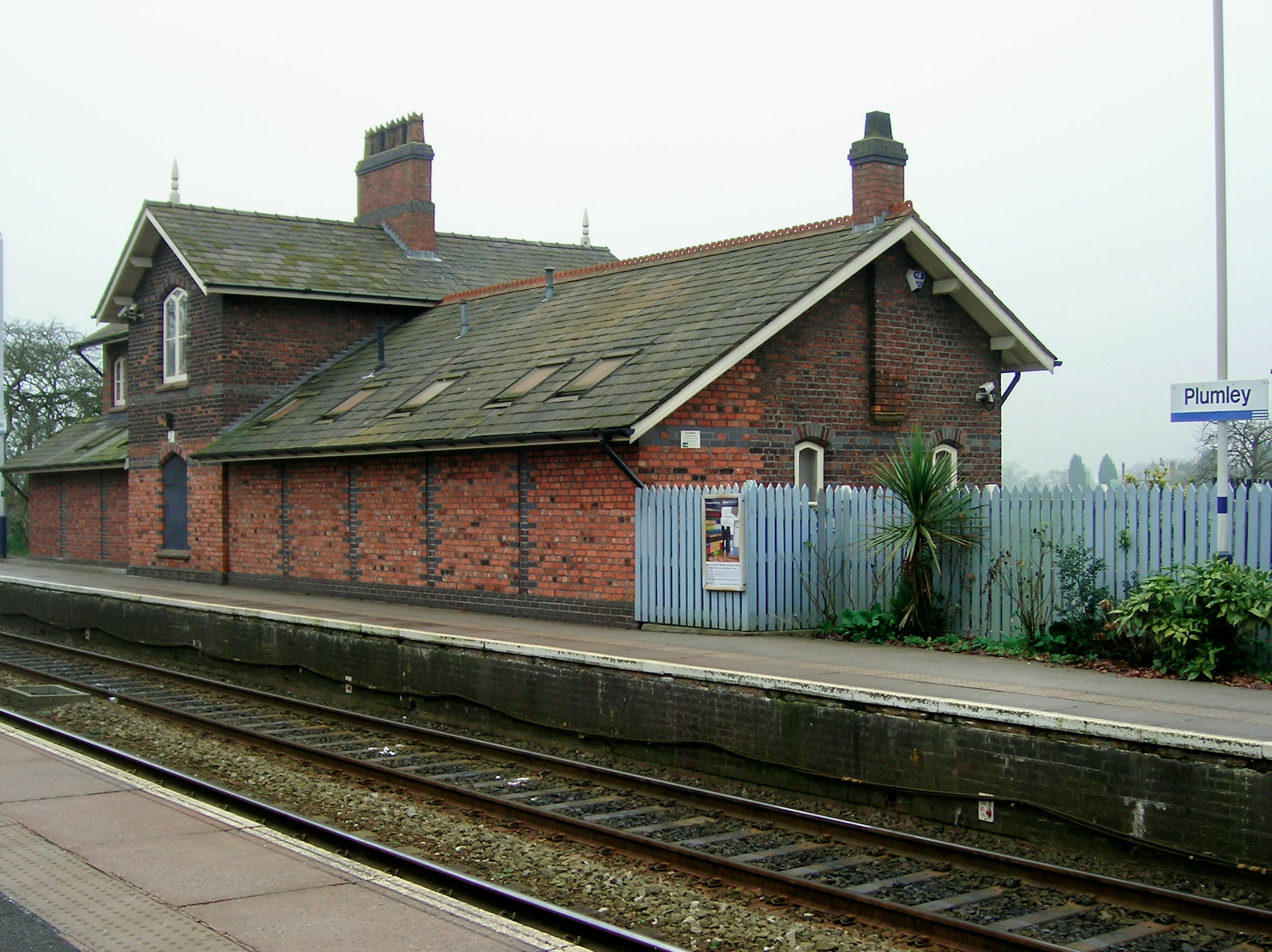 Plumley railway station, view looking east towards the stations only building on the westbound platform